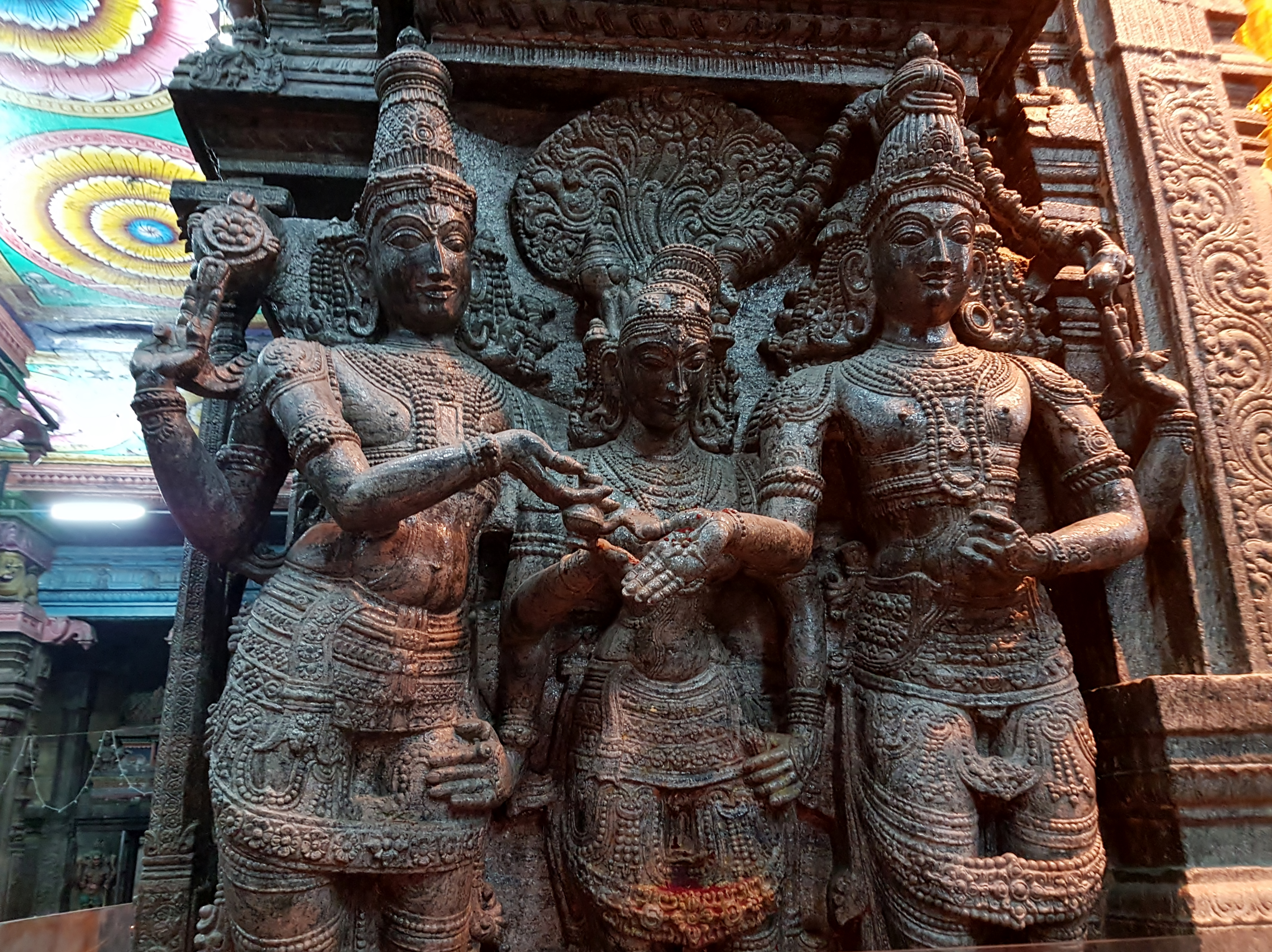 Mariage of Shiva and Parvati (Meenakshi) witnessed by Vishnu, Meenakshi Temple, Madurai (2) Meenakshi Temple is a historic Hindu temple located on the southern bank of the Vaigai River in Madurai, Tamil Nadu, India. It is dedicated to Meenakshi (Parvati) and Sundareswar (Shiva).